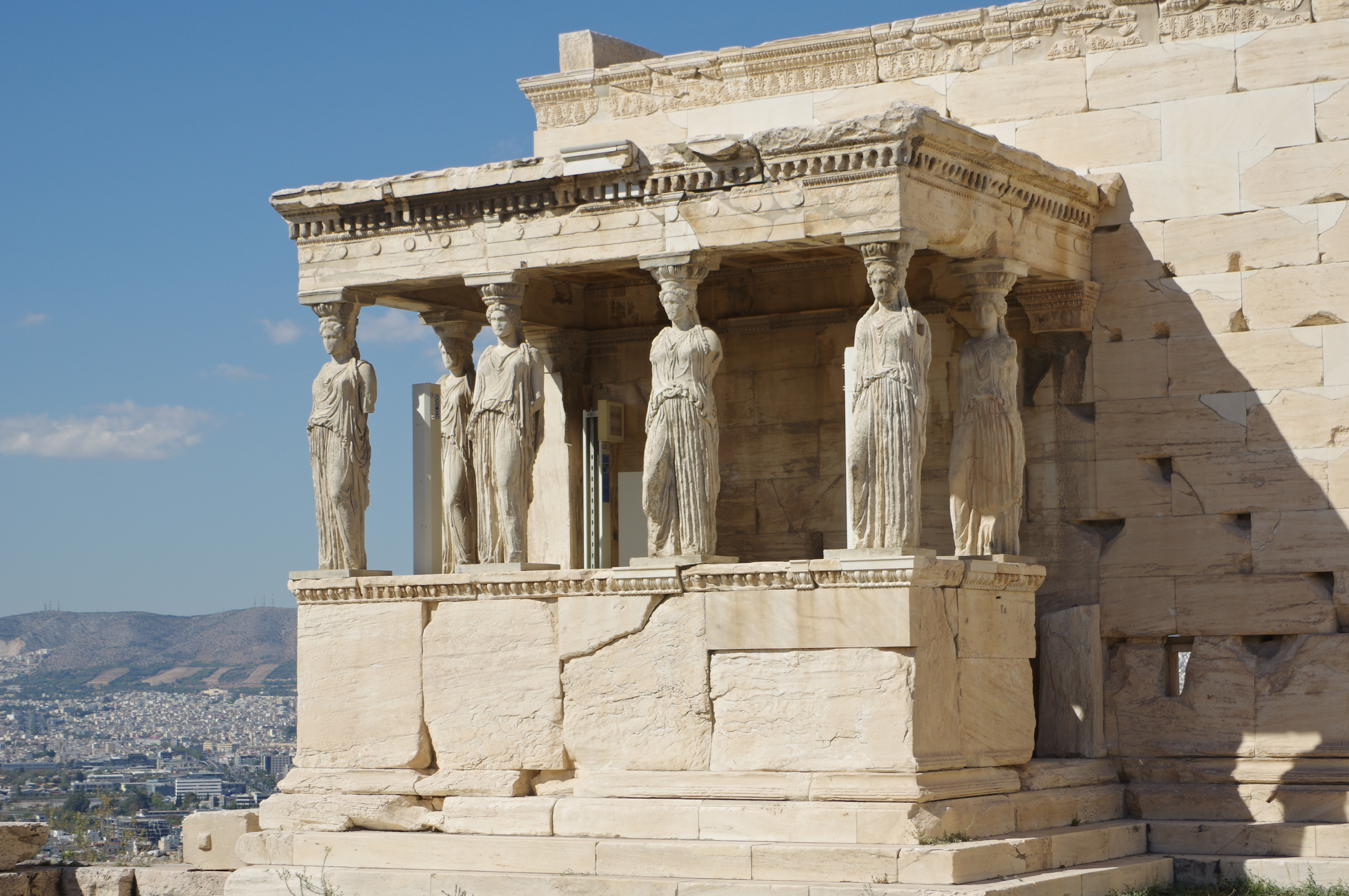 Greece, Athen, Acropolis, Erechtheum